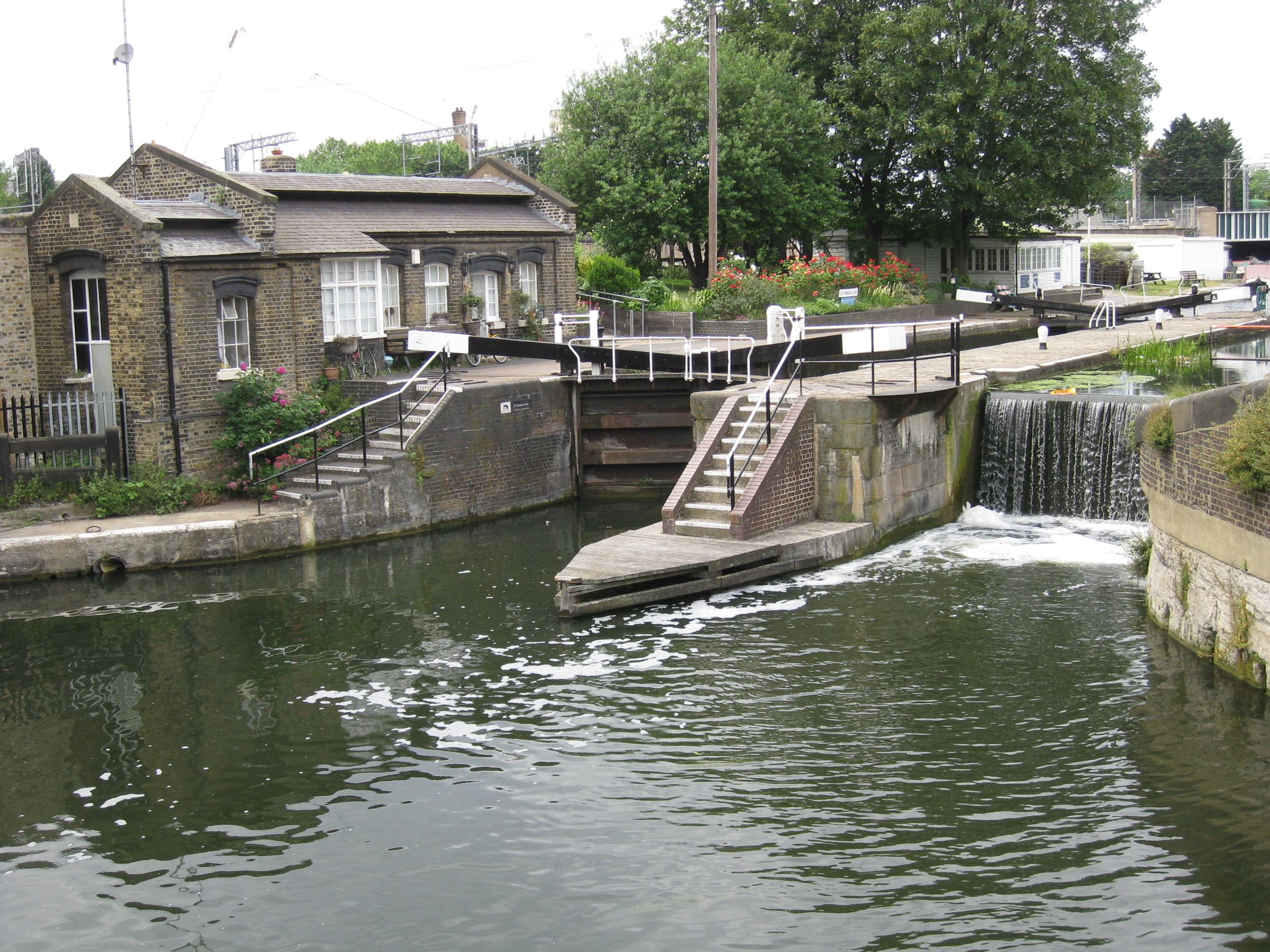 St Pancras Lock on the Regent's Canal, London NW1